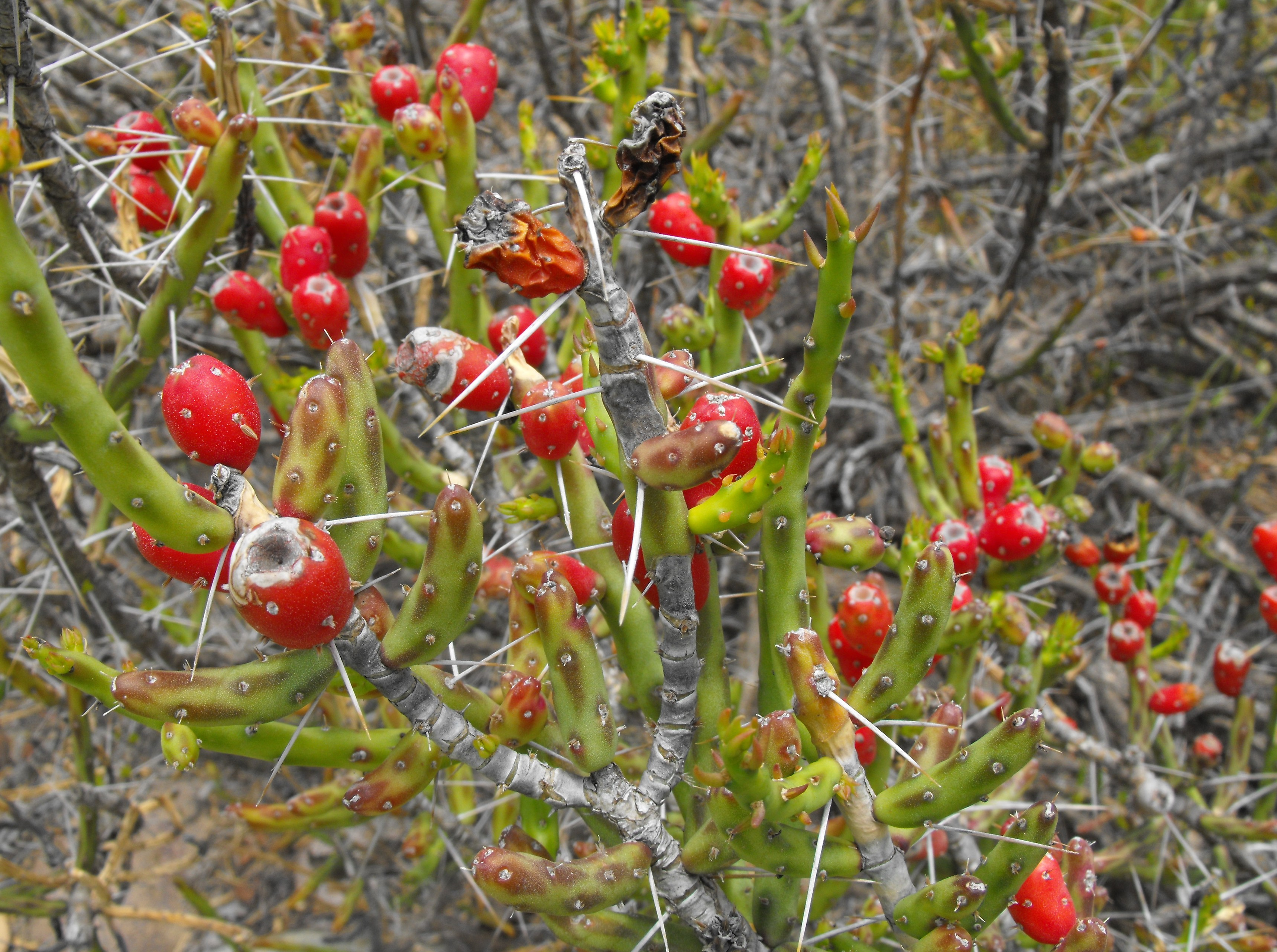 Cylindropuntia leptocaulis syn. Opuntia leptocaulis in the Mediterranean Garden at San Diego State University, California, USA.